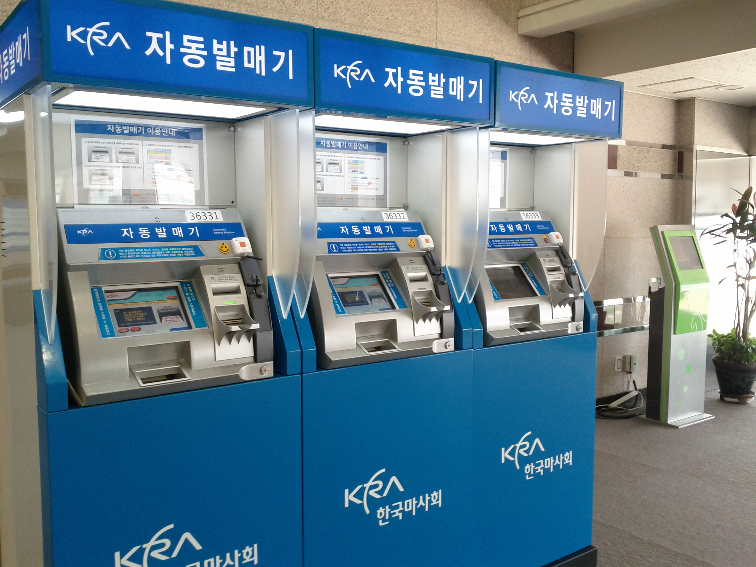 Korea Racing Authority(KRA)'s automated betting ticket vendor in Seoul racecourse.